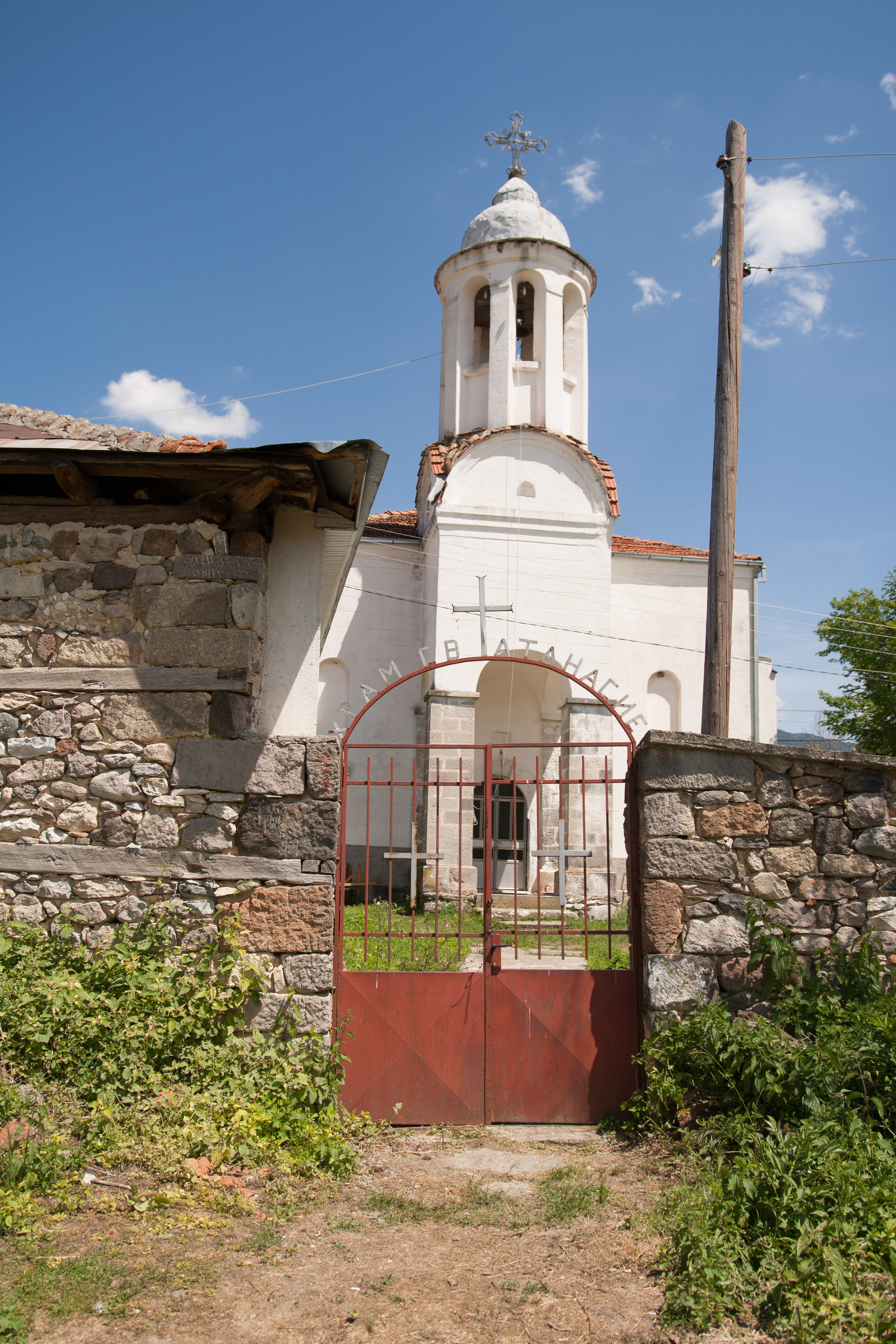 View of the church in the village Vitolište